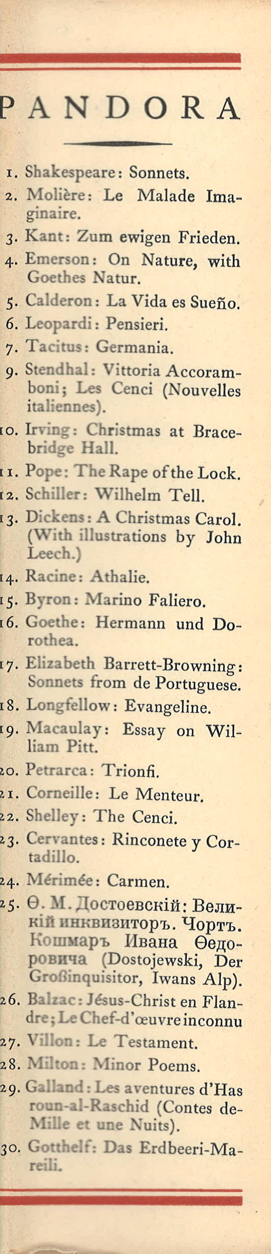 Duhamel: Anthologie francaise, Insel Verlag 1923, Part of DW